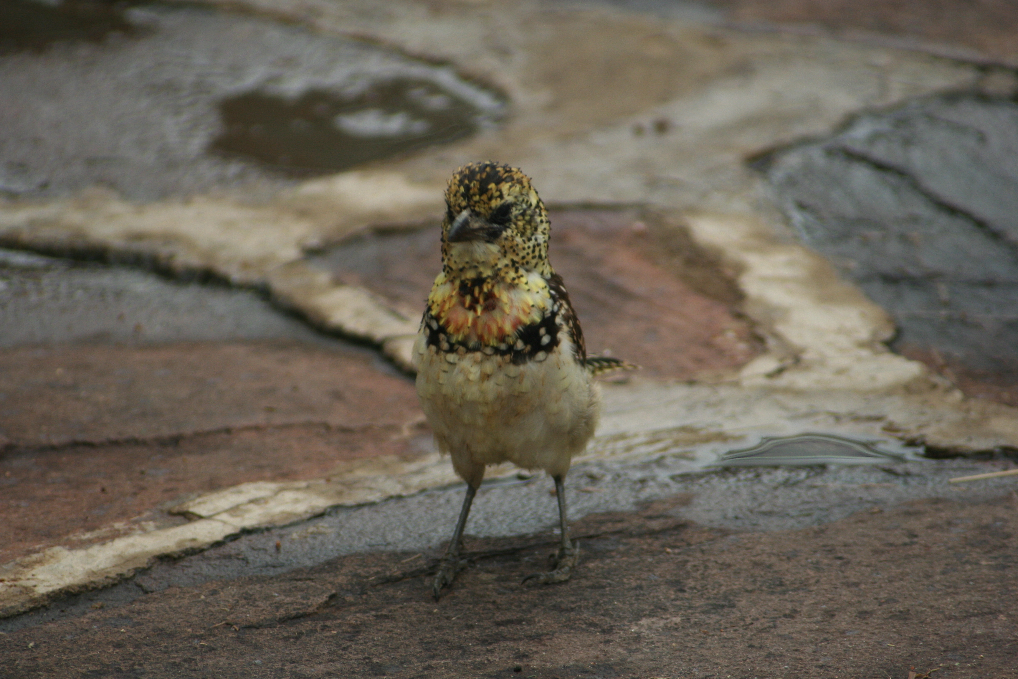 D'Arnaud's Barbet (Trachyphonus darnaudii) at Serengeti NP rest area (photo by Mike)